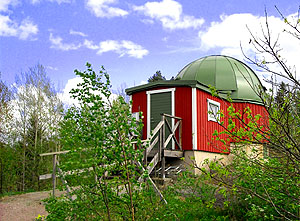 Åkesta Observatory from 1939